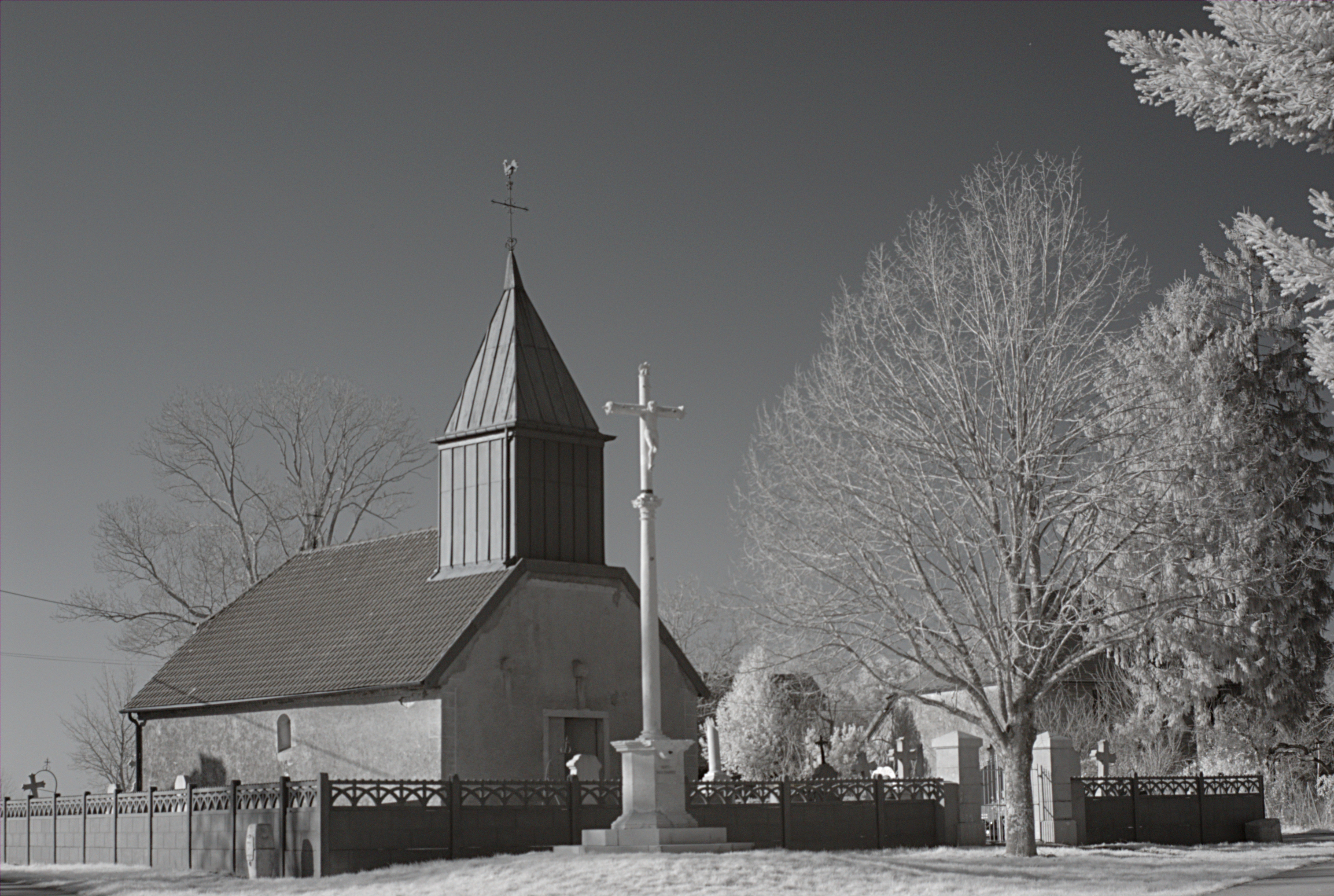 Cross monumental, hamlet of Villangrette, Saint-Loup (Jura, Franche-Comté, France) photographied with a 760 nm infrared filter. .